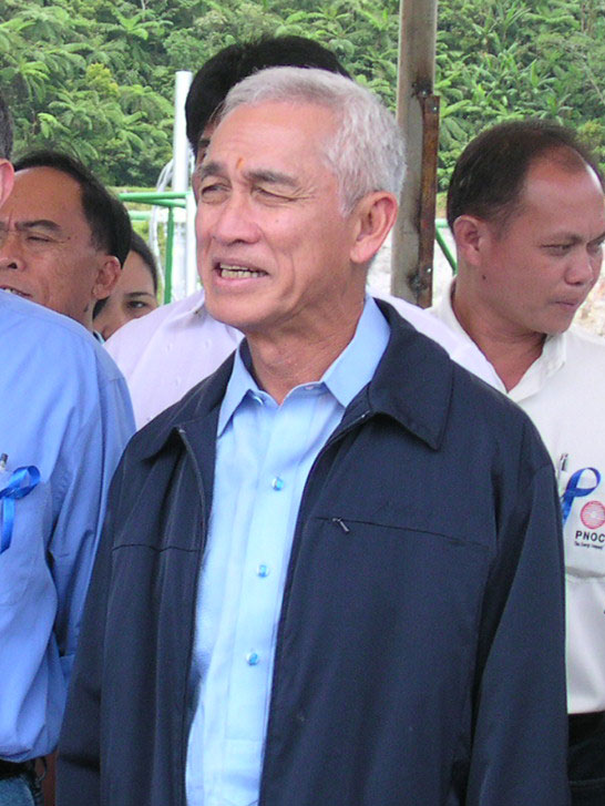 Philippine Finance Secretary Margarito "Gary" Teves in Valencia, Negros Oriental.